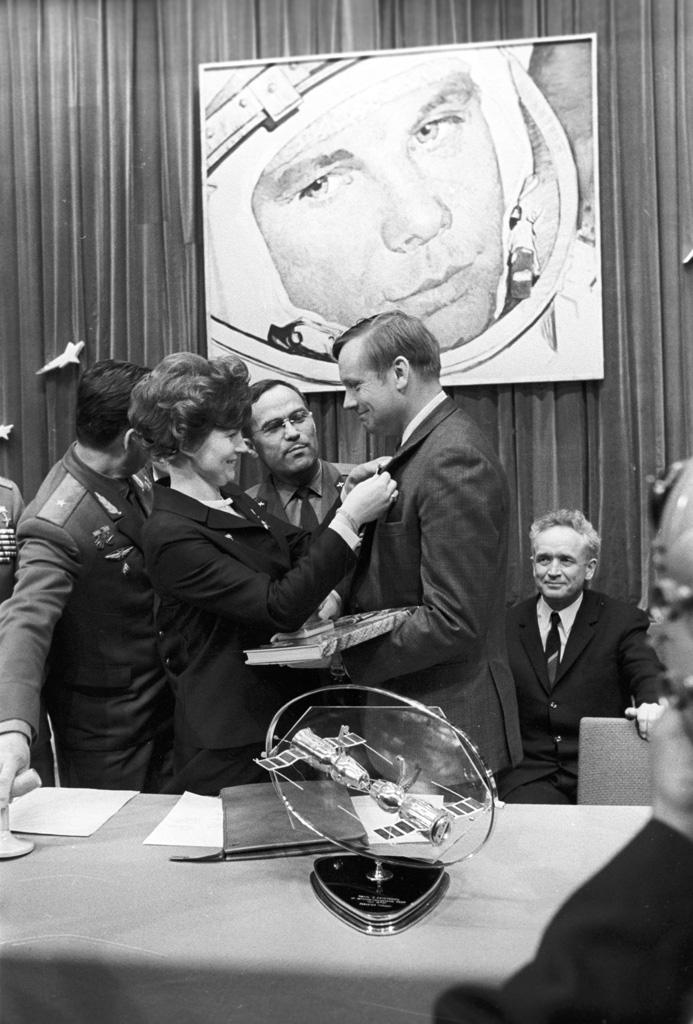 “Valentina Tereshkova and Neil Armstrong”. Hero of the Soviet Union Valentina Tereshkova, first woman cosmonaut in the world and USSR Pilot Cosmonaut (b. 1937), presenting a badge to U.S. astronaut Neil Armstrong in memory of his visit to the Gagarin Cosmonaut Training Center in Star City.